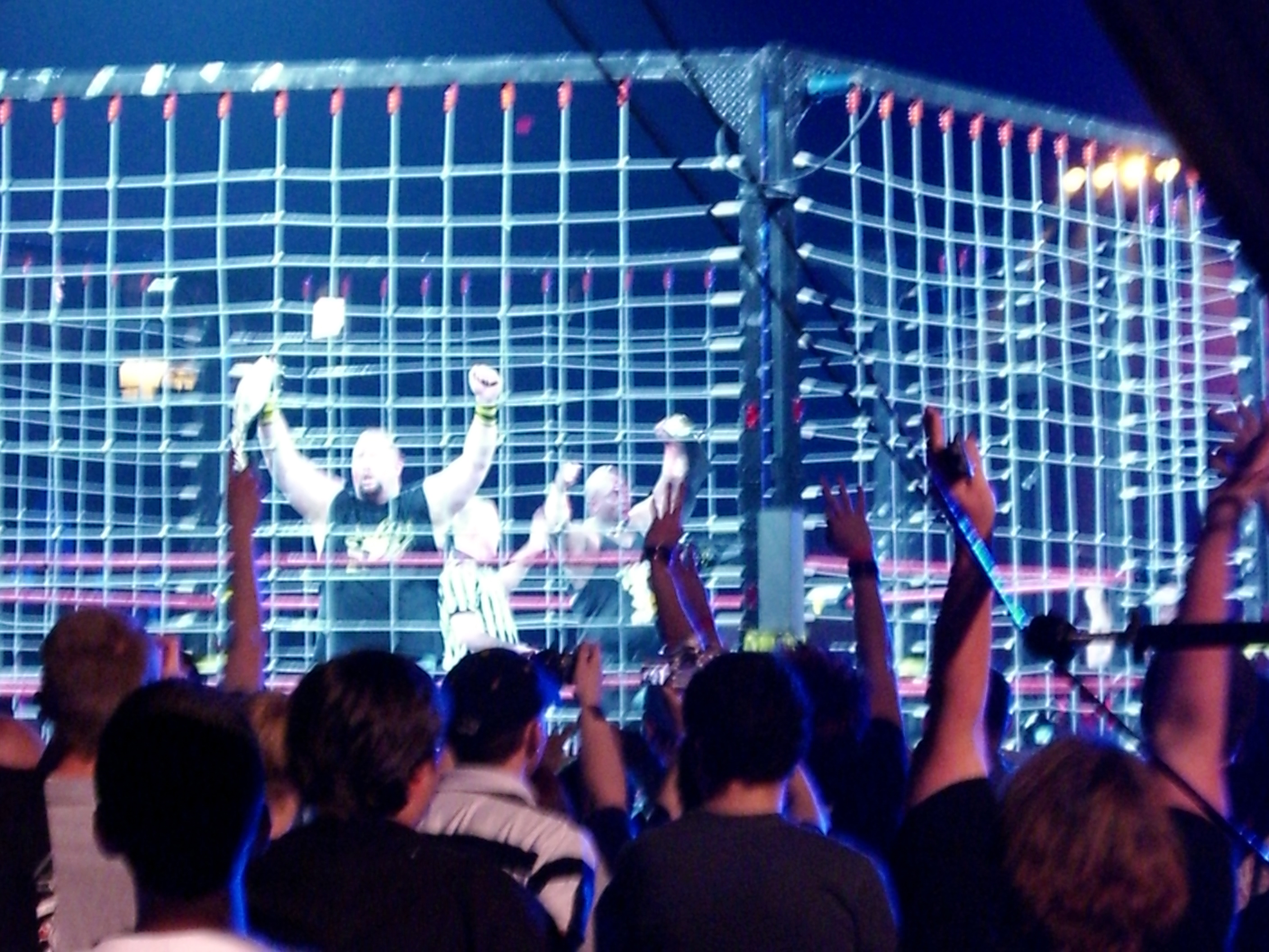 The Duds celebrate winning the tag belts